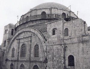 The Hurva Synagogue in the Old City of Jerusalem as it stood before 1948.